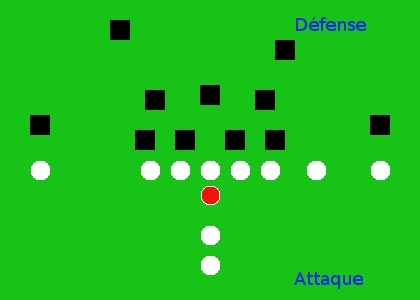 quarterback's position on the field (football)